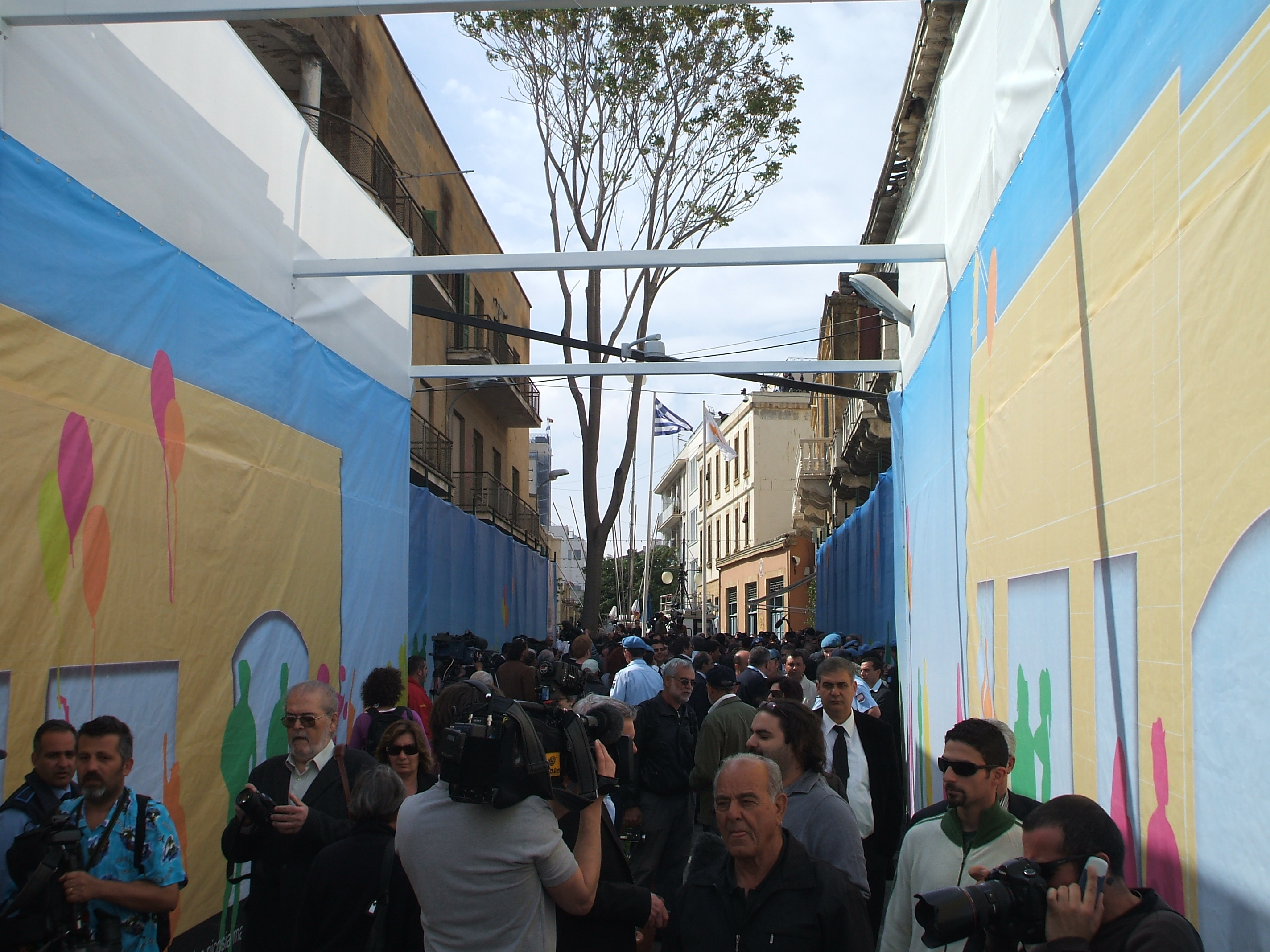 The city of Nicosia, Cyprus, on 3 April 2008, the day when the Green Line at Ledra Street was reopened: People using the new border crossing (seen from north to south)